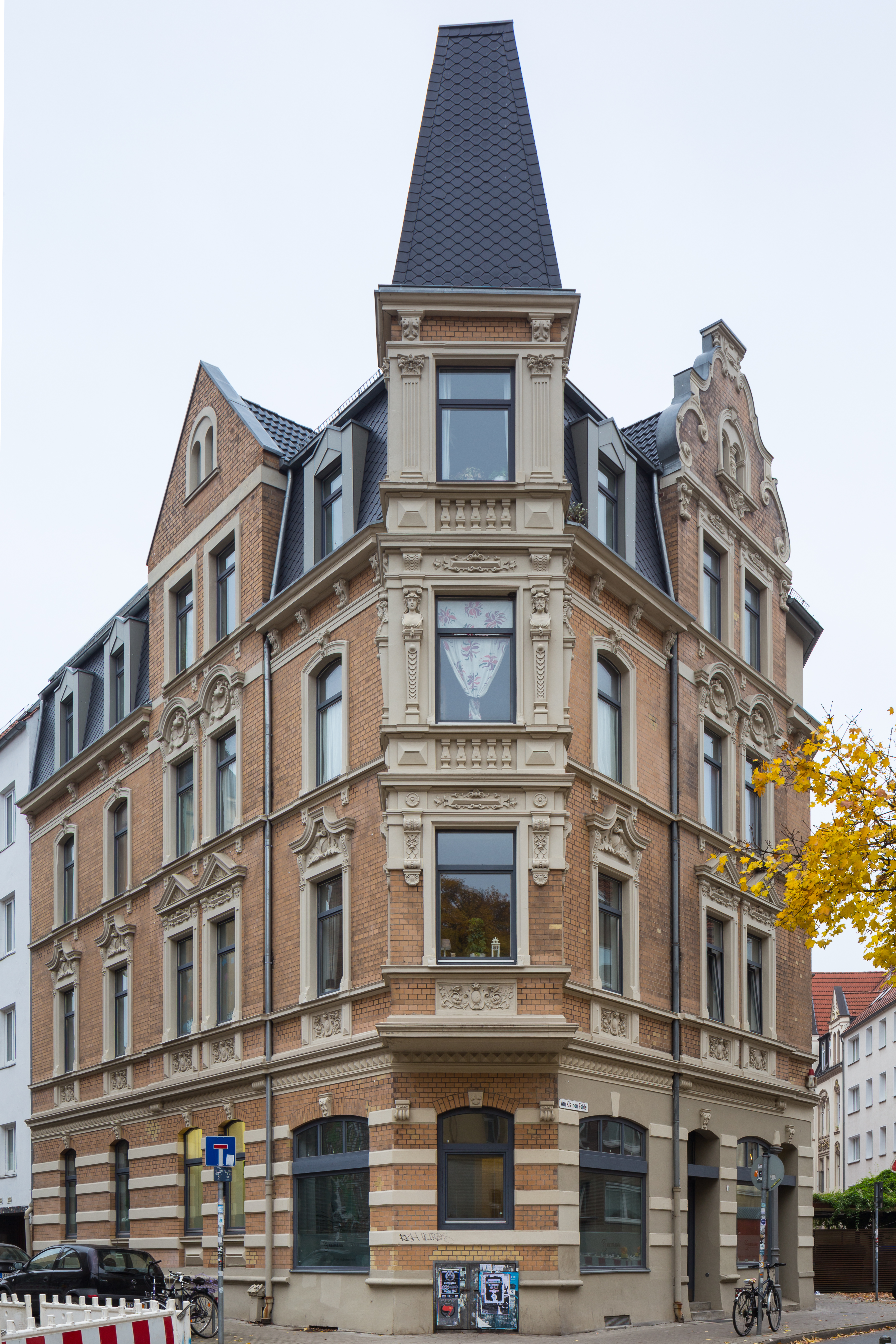 Apartment house located at Am Puttenser Felde and Am Kleinen Felde in Nordstadt quarter of Hannover, Germany.